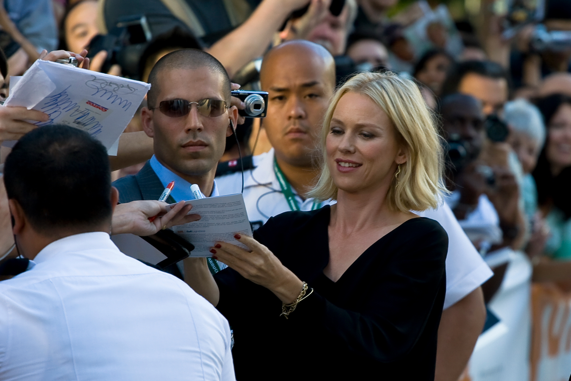 At the premiere of "Mother and Child", directed by Rodrigo García, during the Toronto International Film Festival, 2009.